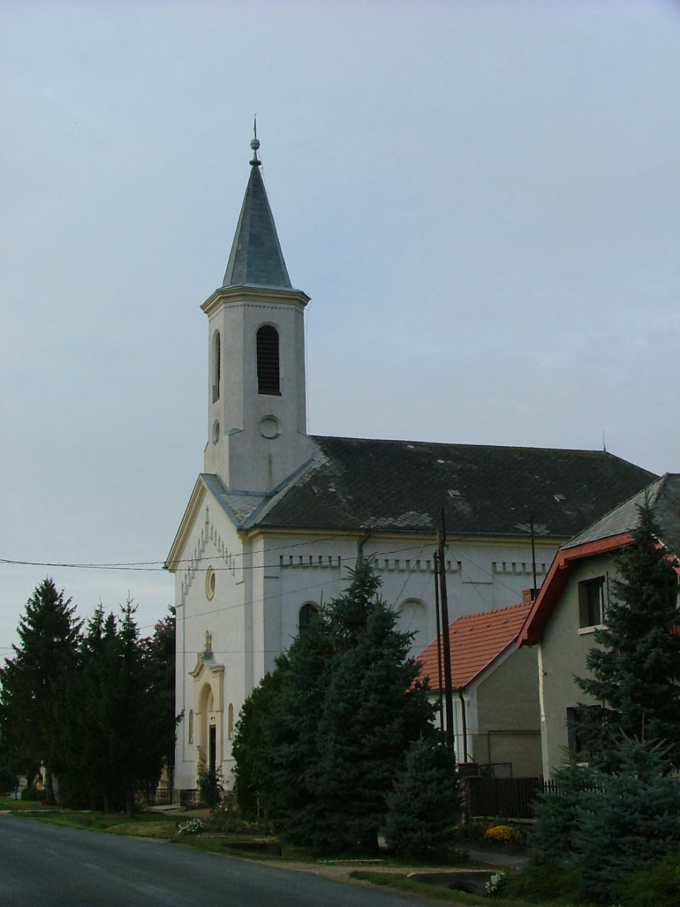 Völcsej, Saint Ladislaus (roman catholic) church